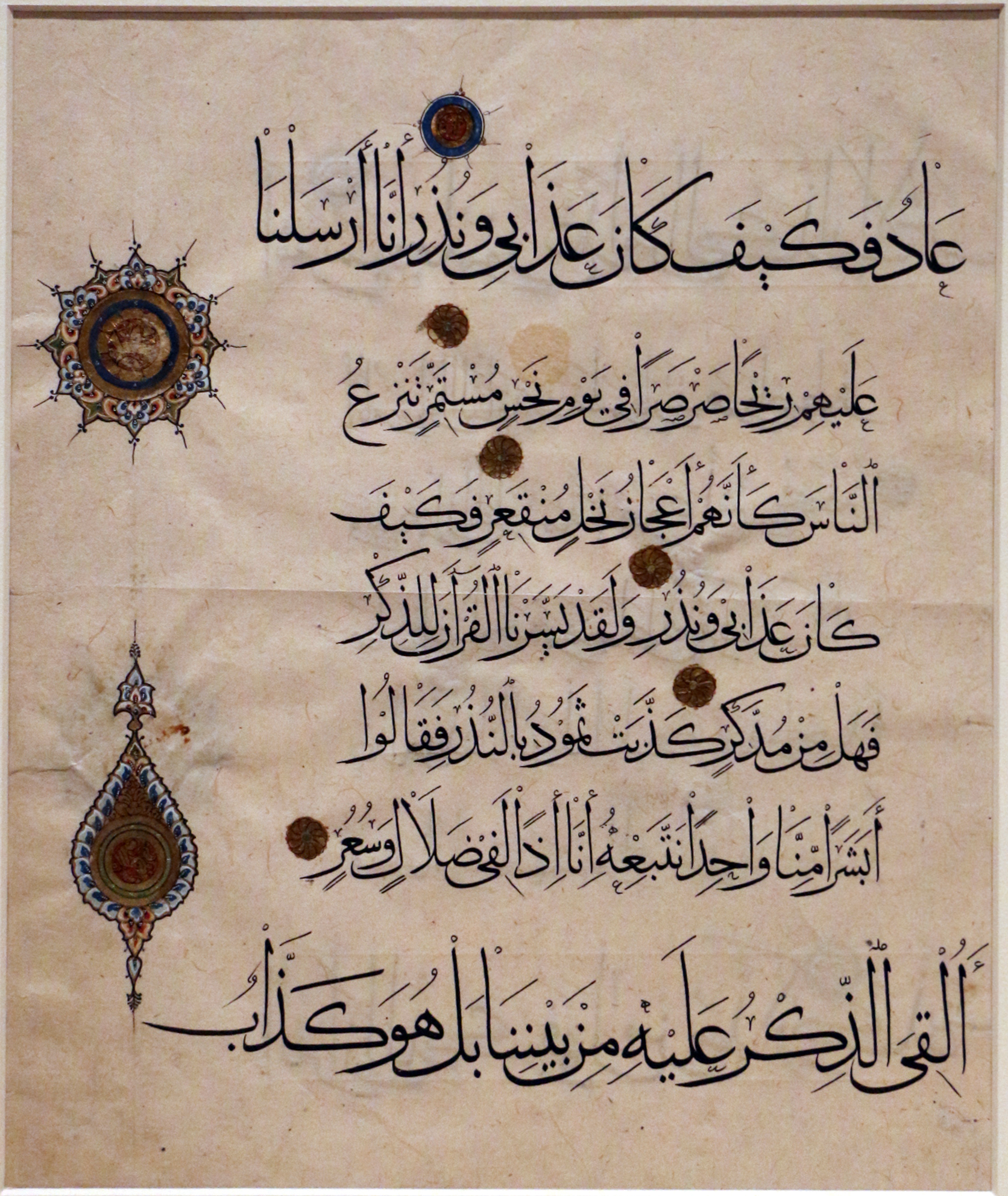 Islamic art in the Art Institute of Chicago